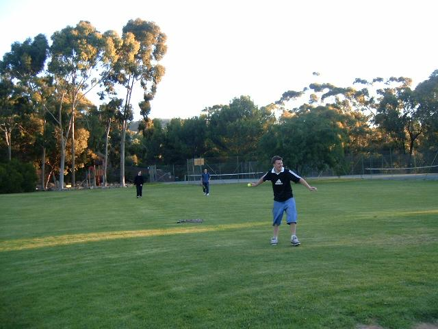 Adelaide youth enjoying a game of cricket on Langman Reserve.